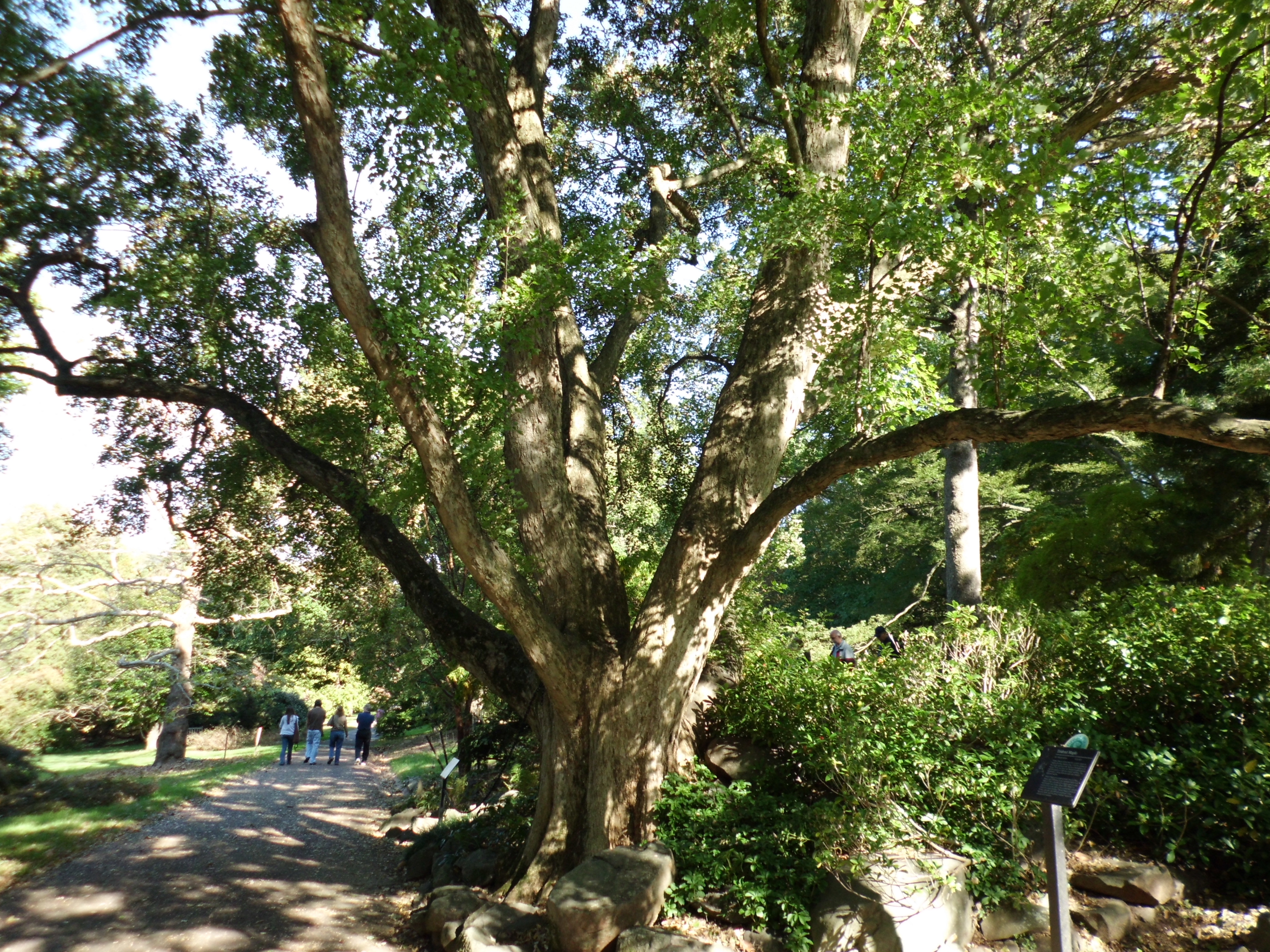 Acer buergerianum at Morris Arboretum.